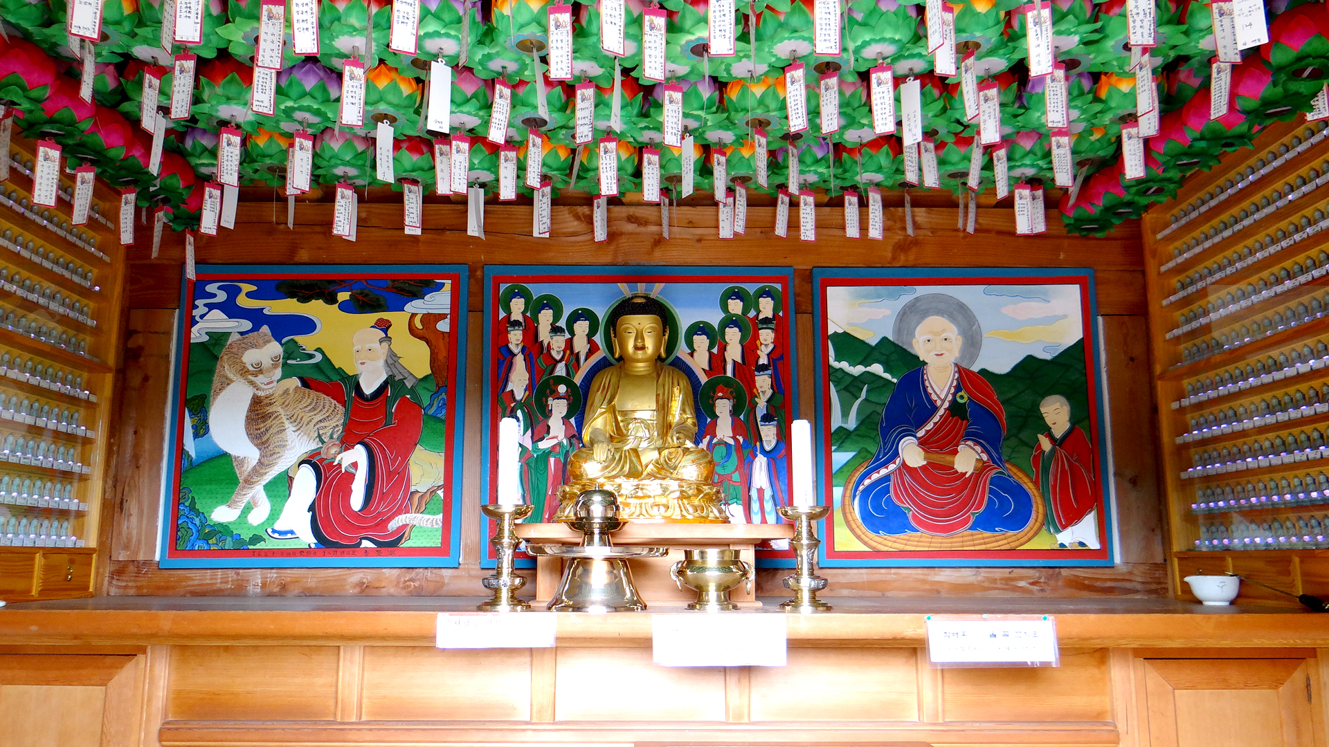 Naesosa Sansingak, Mountain God Shrine - Naesosa in Buan County, North Jeolla Province, South Korea was built in 633 CE and was rebuilt in 1633. Originally called Soraesa, around the Imjin War the temple changed its name to Naesosa.